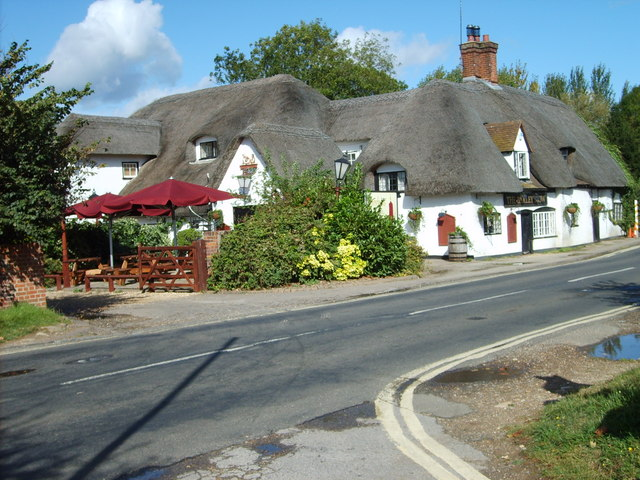 The Barley Mow, Long Wittenham, Oxfordshire (formerly Berkshire), near Clifton Hampden Bridge